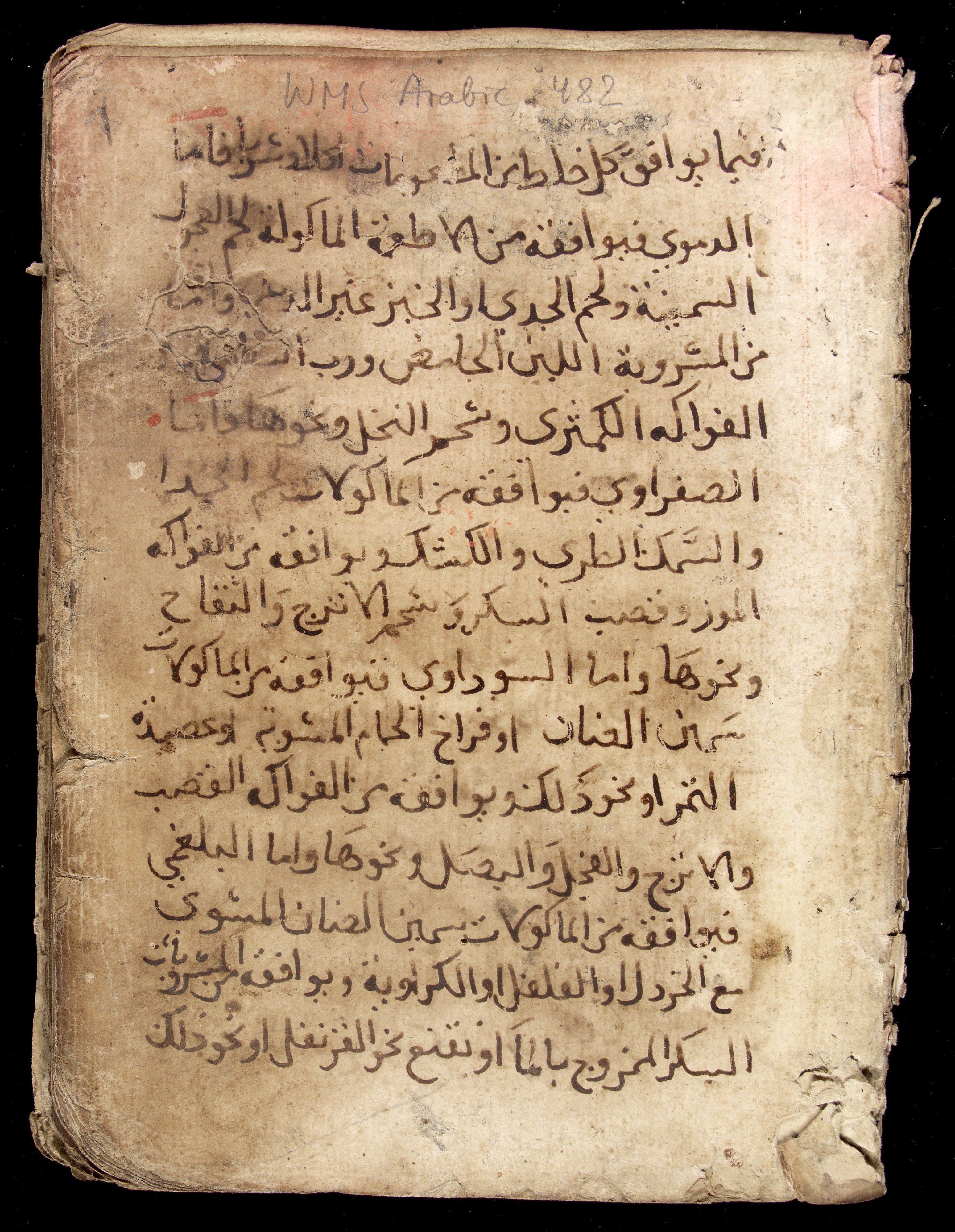 Page from an Arabic Text Asian Collection Keywords: Arabic